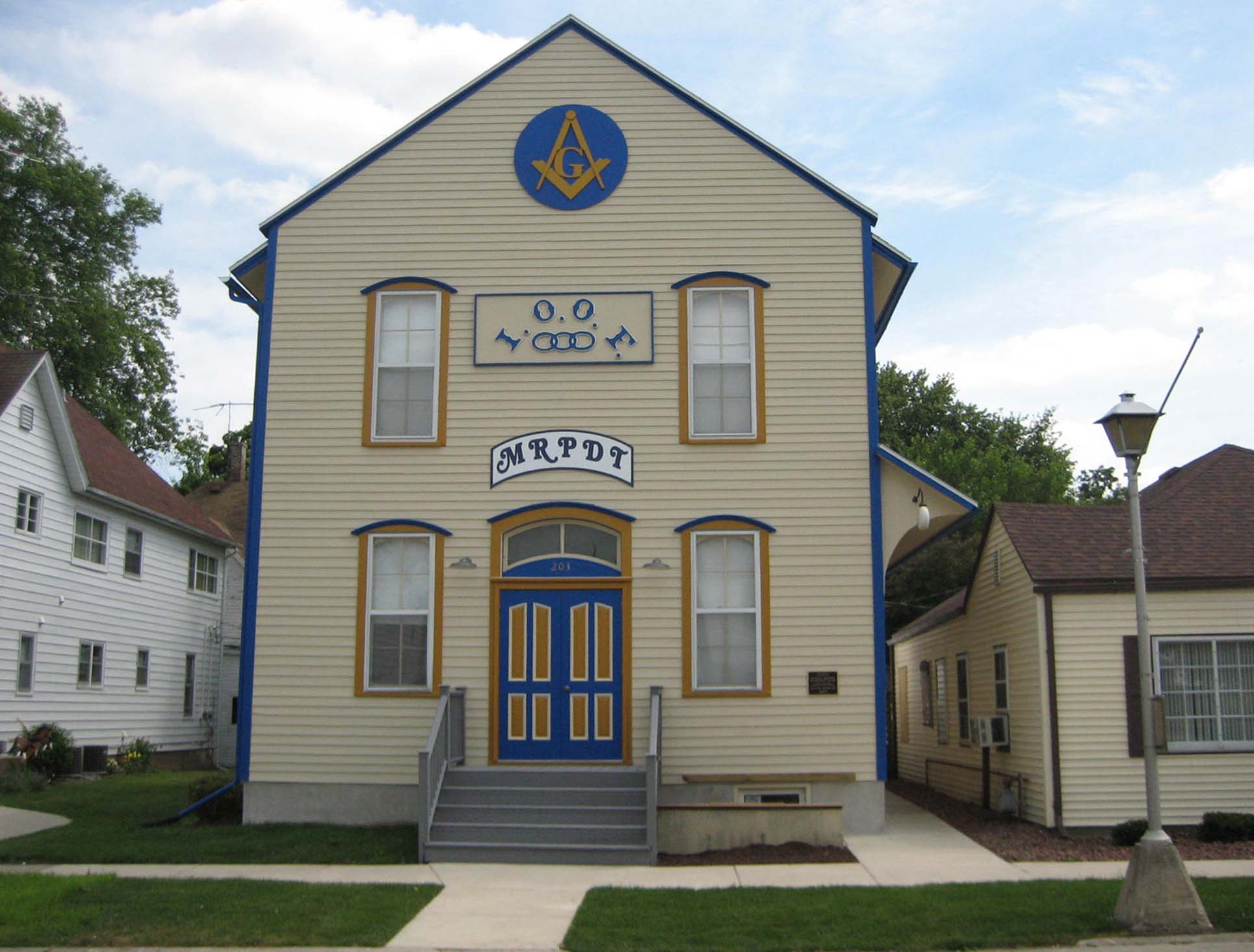 AF and AM Lodge 687, Orangeville, Illinois, USA. U.S. National Register of Historic Places. a.k.a. Independent Order of Odd Fellows J.R. Scruggs Lodge 372 The building is also the home of the M.R.P.D.T. (Mighty Richmond Players Dinner Theatre).